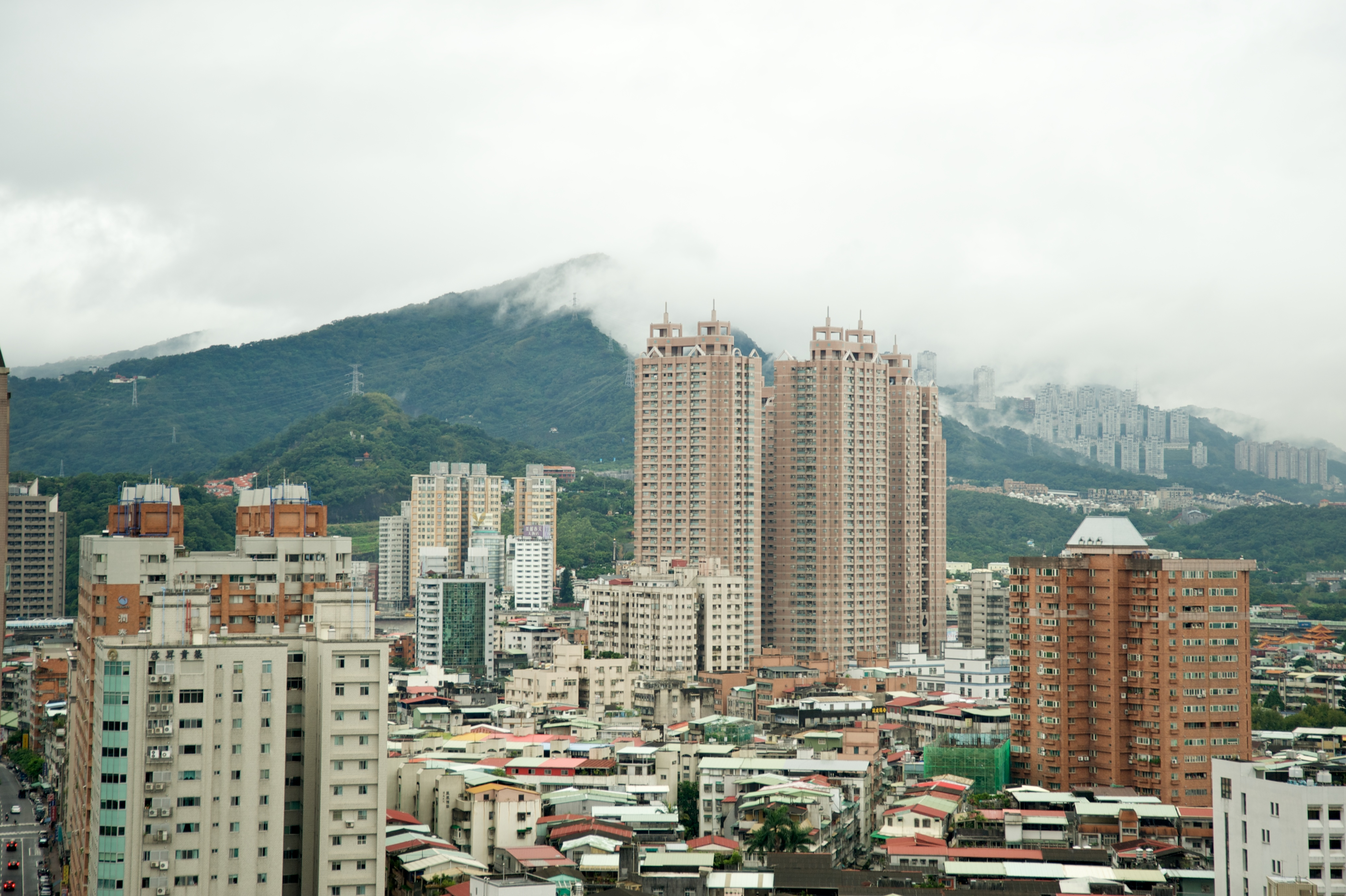 Citiscape view of the Xindian City in Taipei County, Taiwan